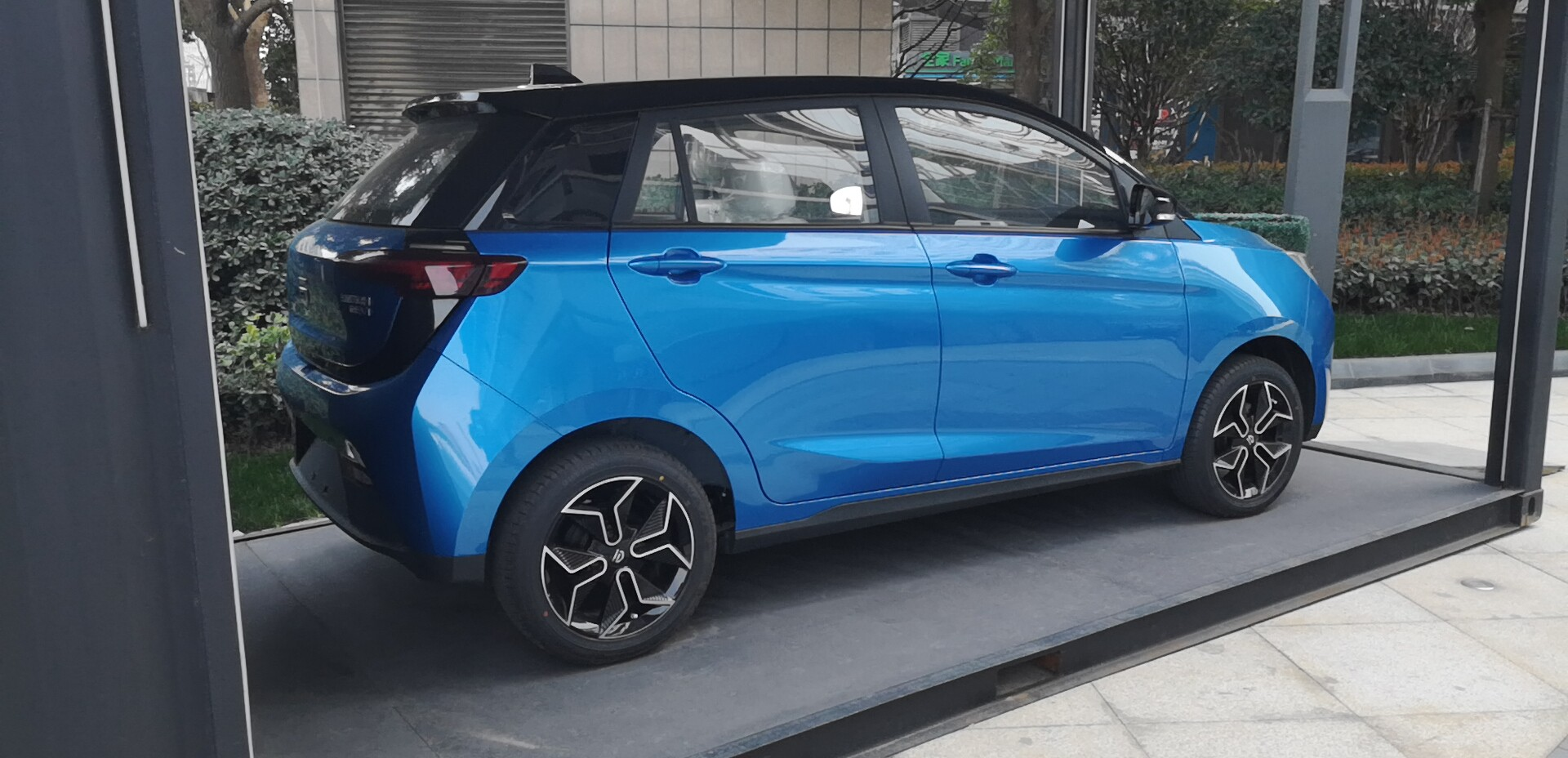 Sitech DEV1